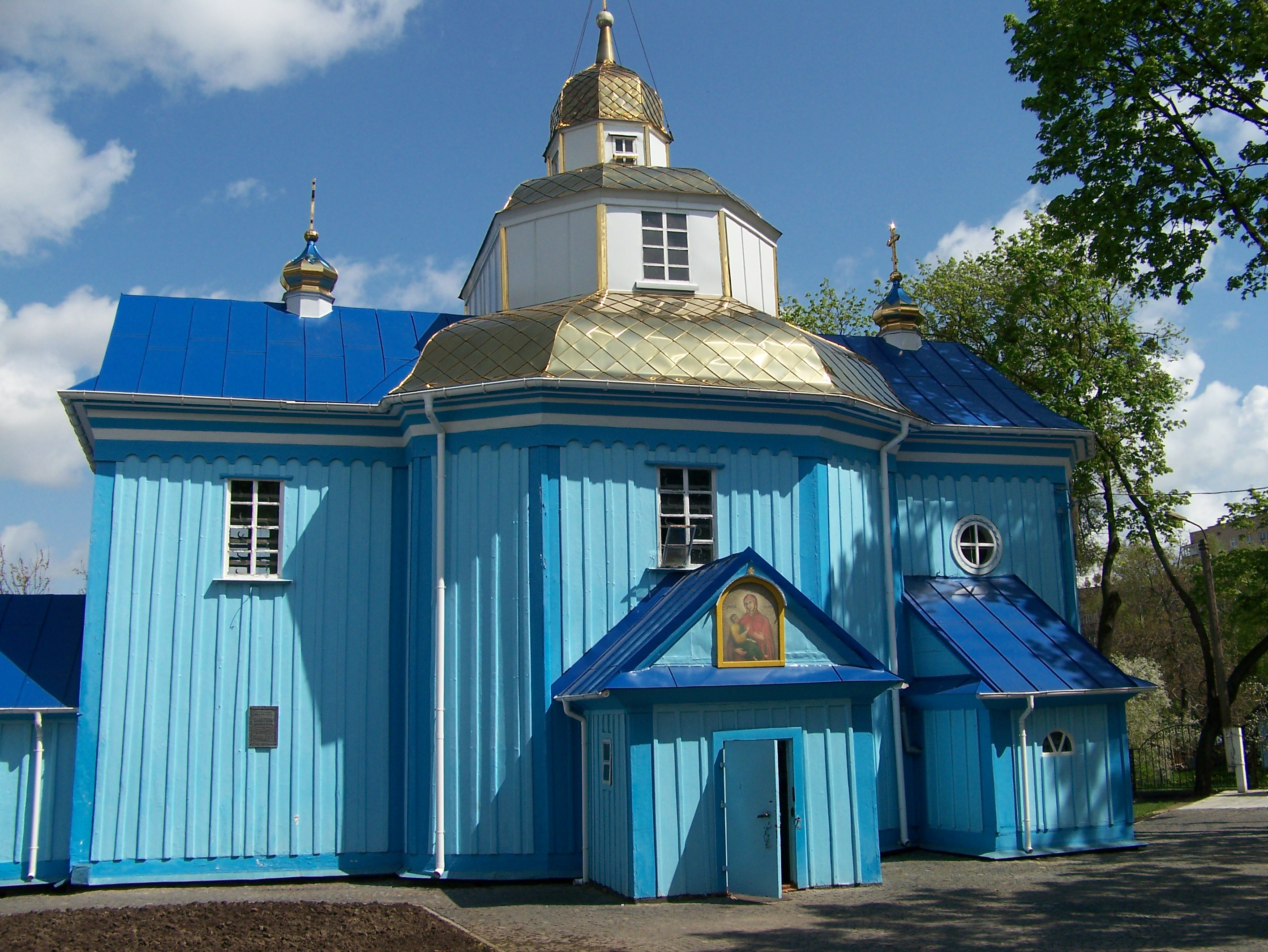 The Church of the Assumption